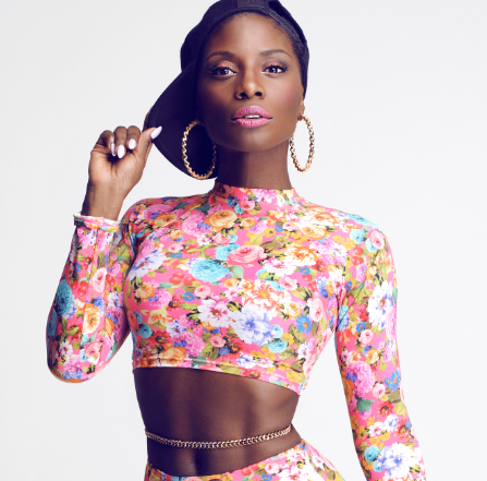 Nikeata Thompson